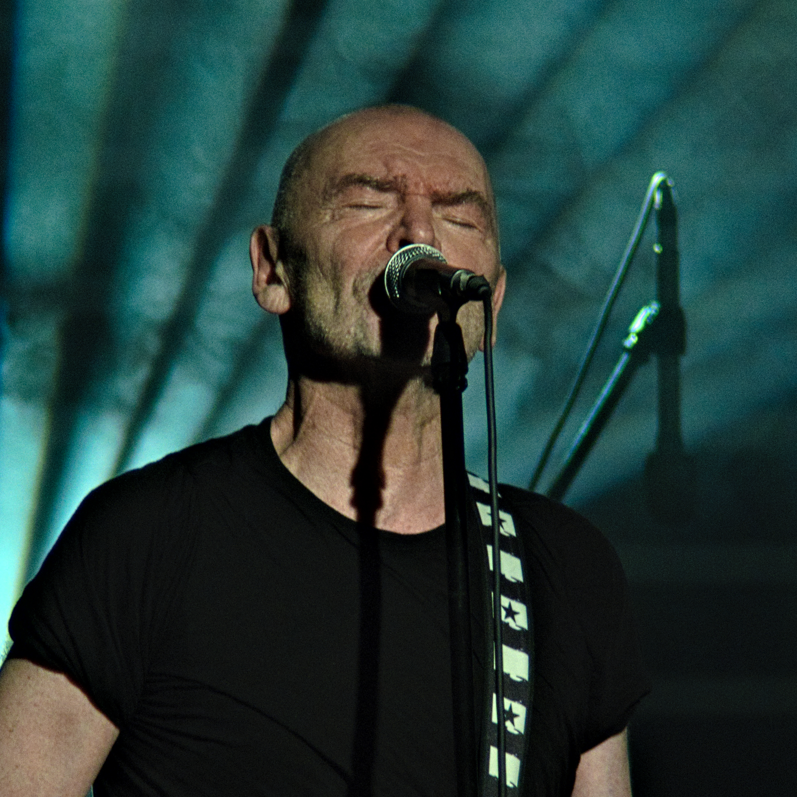 Wojciech Waglewski, Voo Voo concert in Katowice, Sejmu Śląskiego square, photo taken with permission of Voo Voo manager, Mariusz Dettlaff